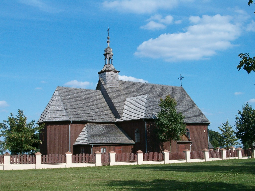 Church in Dziekanowice Poland